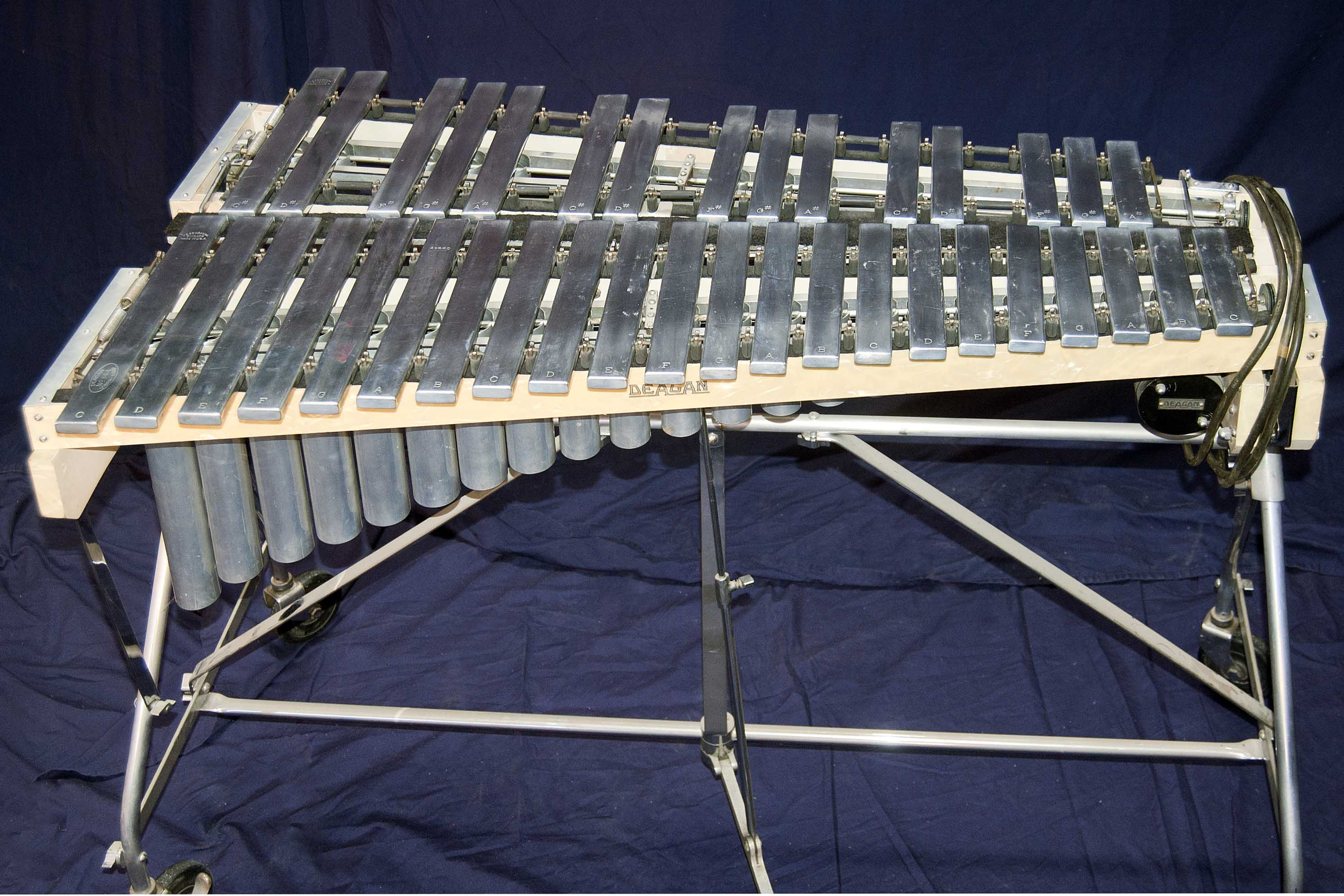 Soprano vibraphone (from Emil Richards Collection), range C4-C7